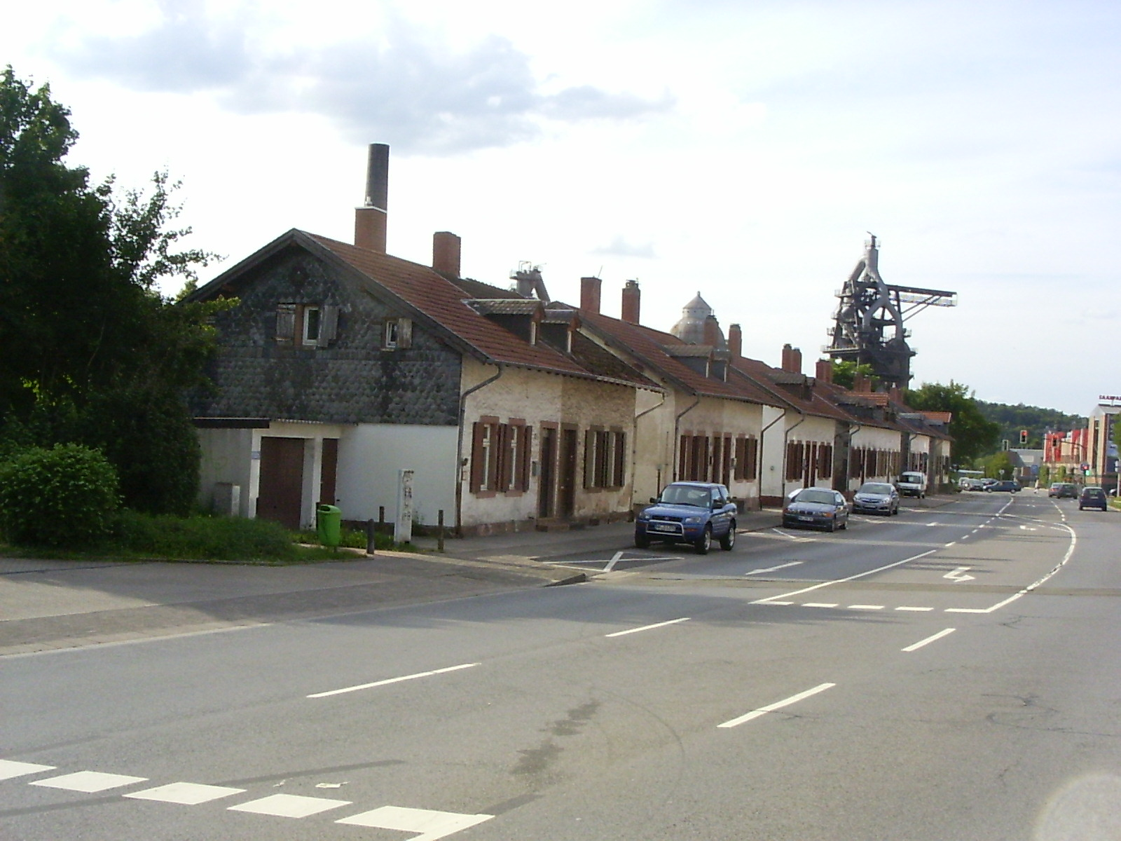 Houses for higher steel labourers. Built 1882. There are six double houses of this type. They have a garden and a small barn for washing and keeping animals.